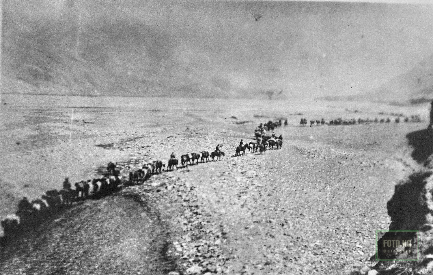 Caravan of an expedition of 1931 under the leadership of Mikhail Pogrebetsky to Tien Shan on a glacier Inylchek